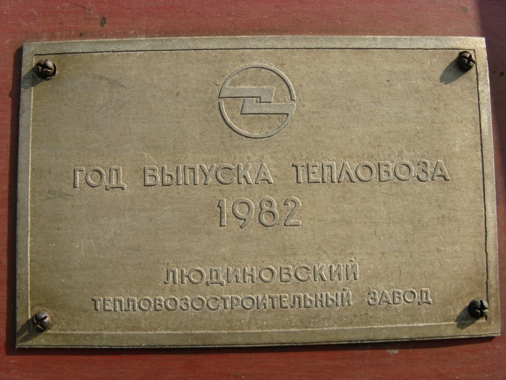 Lyudinovskogo factory installed on a diesel locomotive